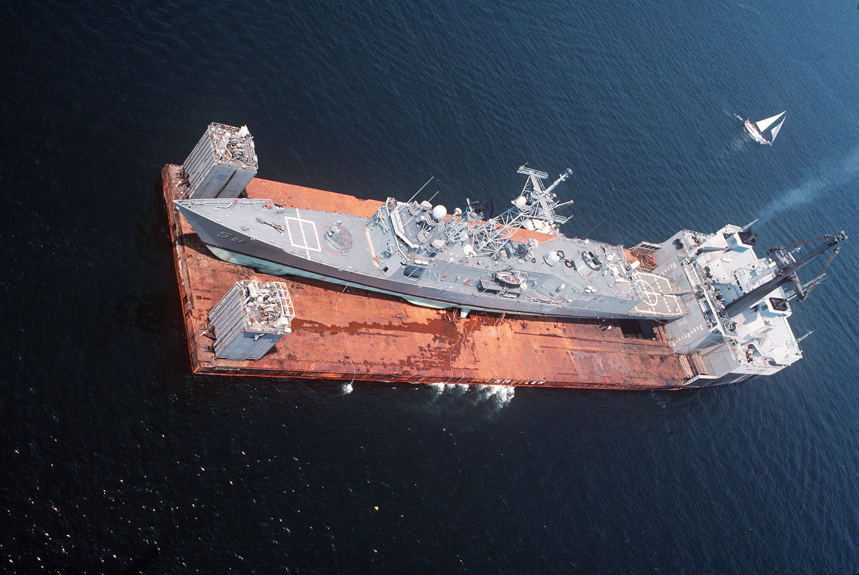 Damaged by a mine in the Persian Gulf, the guided missile frigate USS Samuel B. Roberts is transported by MV Mighty Servant 2 from Dubai to Newport, Rhode Island. Information about Mighty Servant 2 may be found at IMO 8130887. A ship can change her name and flag state through time, but the IMO number remains the same through the hull's entire lifetime. Therefore, it's useful to identify a ship through her IMO number.